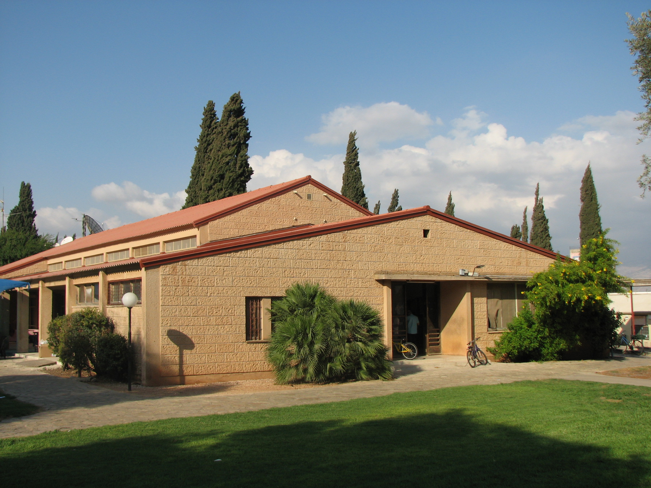 Front view of the old dining room of kibbutz Kfar Giladi